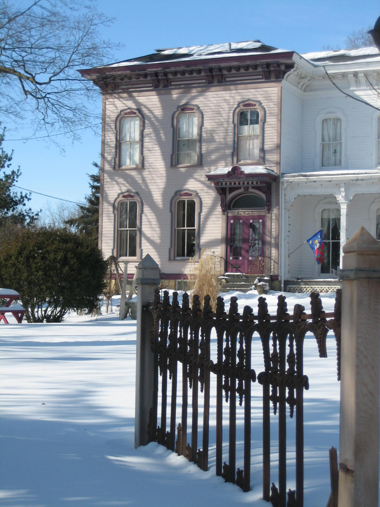 925 Somonauk Street, David DeGraff House, Sycamore, Illinois. Sycamore Historic District, National Register of Historic Places